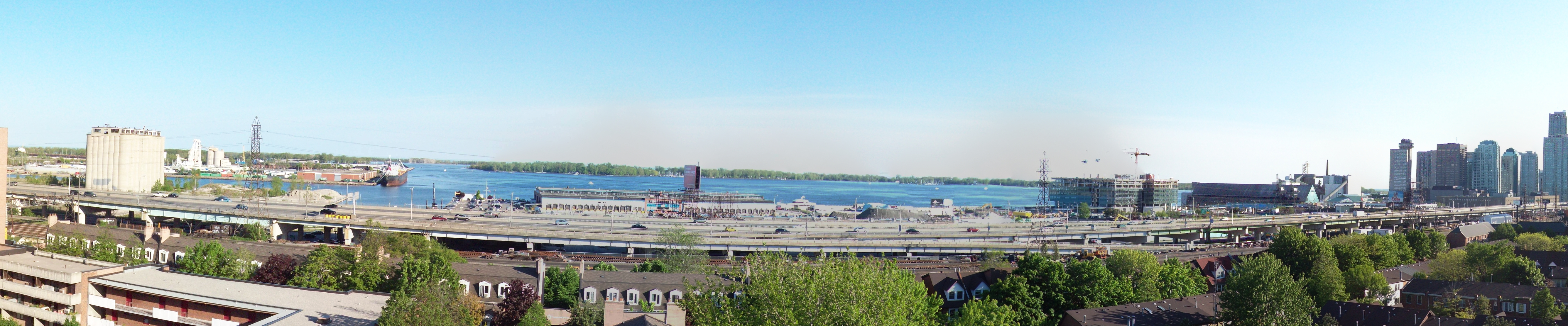 Panorama of Toronto harbour and the Gardiner Expressway, between Yonge and Cherry. The opening to the Keating channel is to the left. The East Bayfront precinct extends south of the Gardiner Expressway, between the Jarvis and Parliament slips.